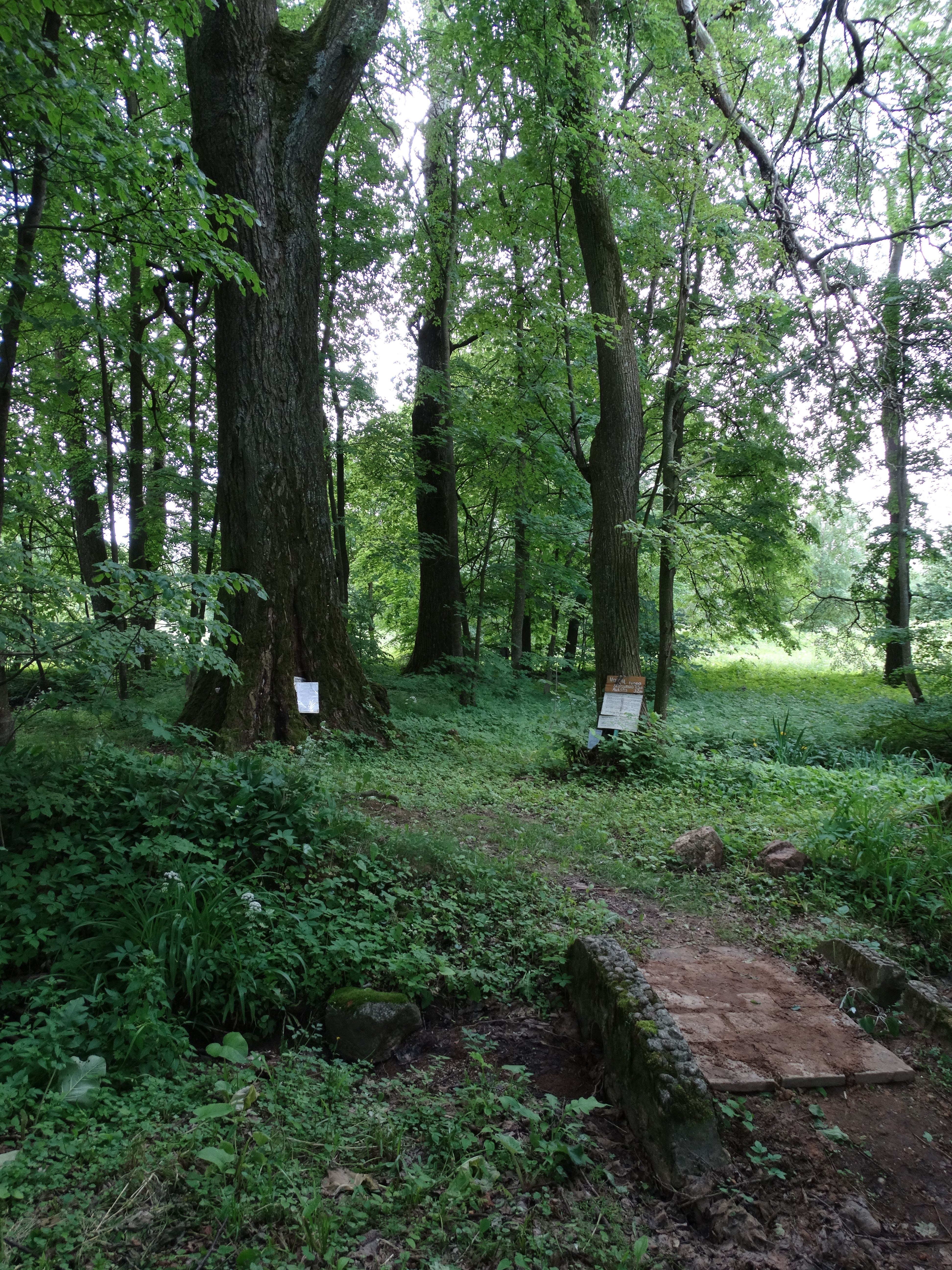 White poplar, Vainiai, Jonava District, Lithuania